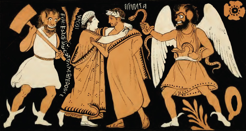 The Farewell of Admetus (ATMITE) and Alcestis (ALCSTI). Etruscan red-figure amphora found in Vulci. Inscription on the left: ECA ERSCE NAC ACHRUM FLERTHRCE (She went and in this way she satisfied Acheron with a sacrifice)